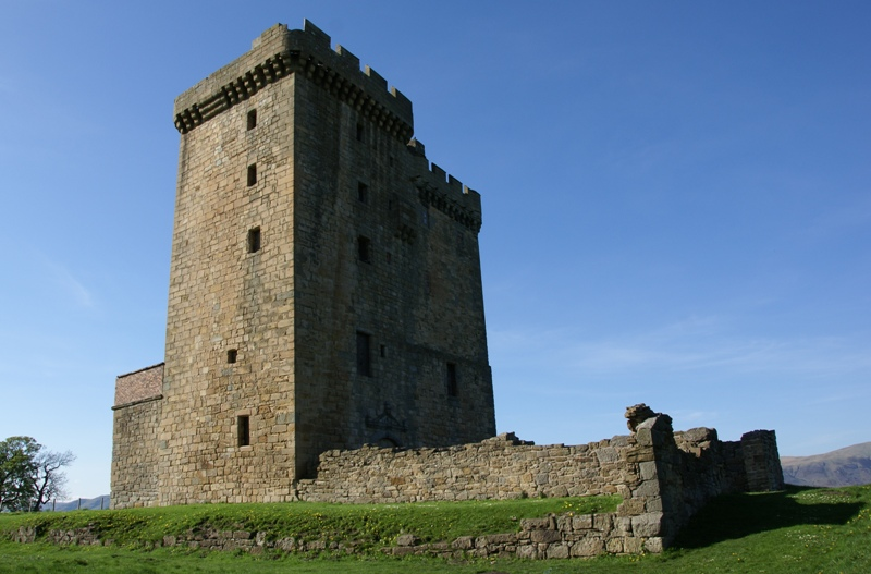 Clackmannan Tower, Scotland - view from south east